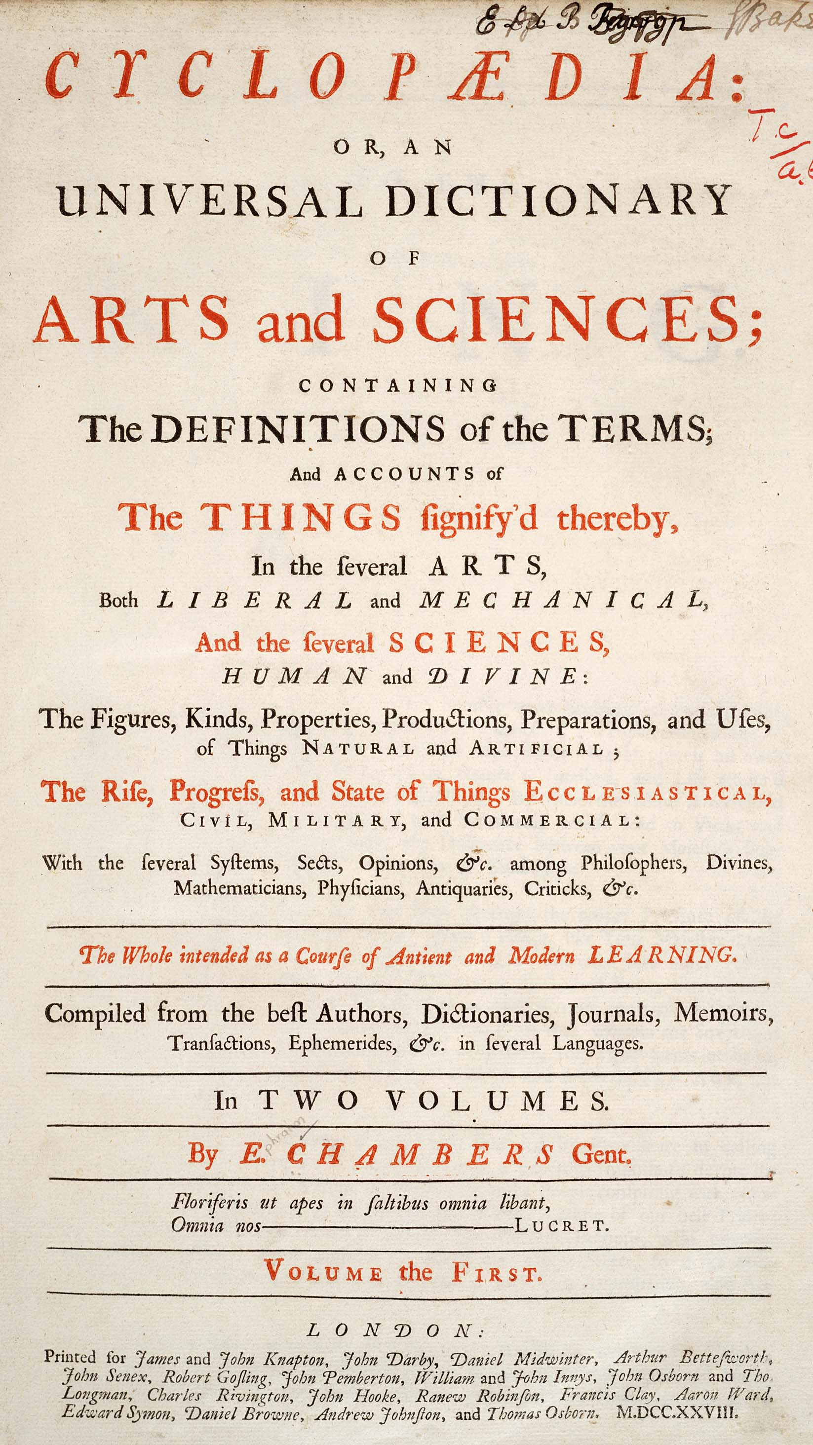 Chambers' Cyclopedia - Title page (1728 ed., vol. 1)